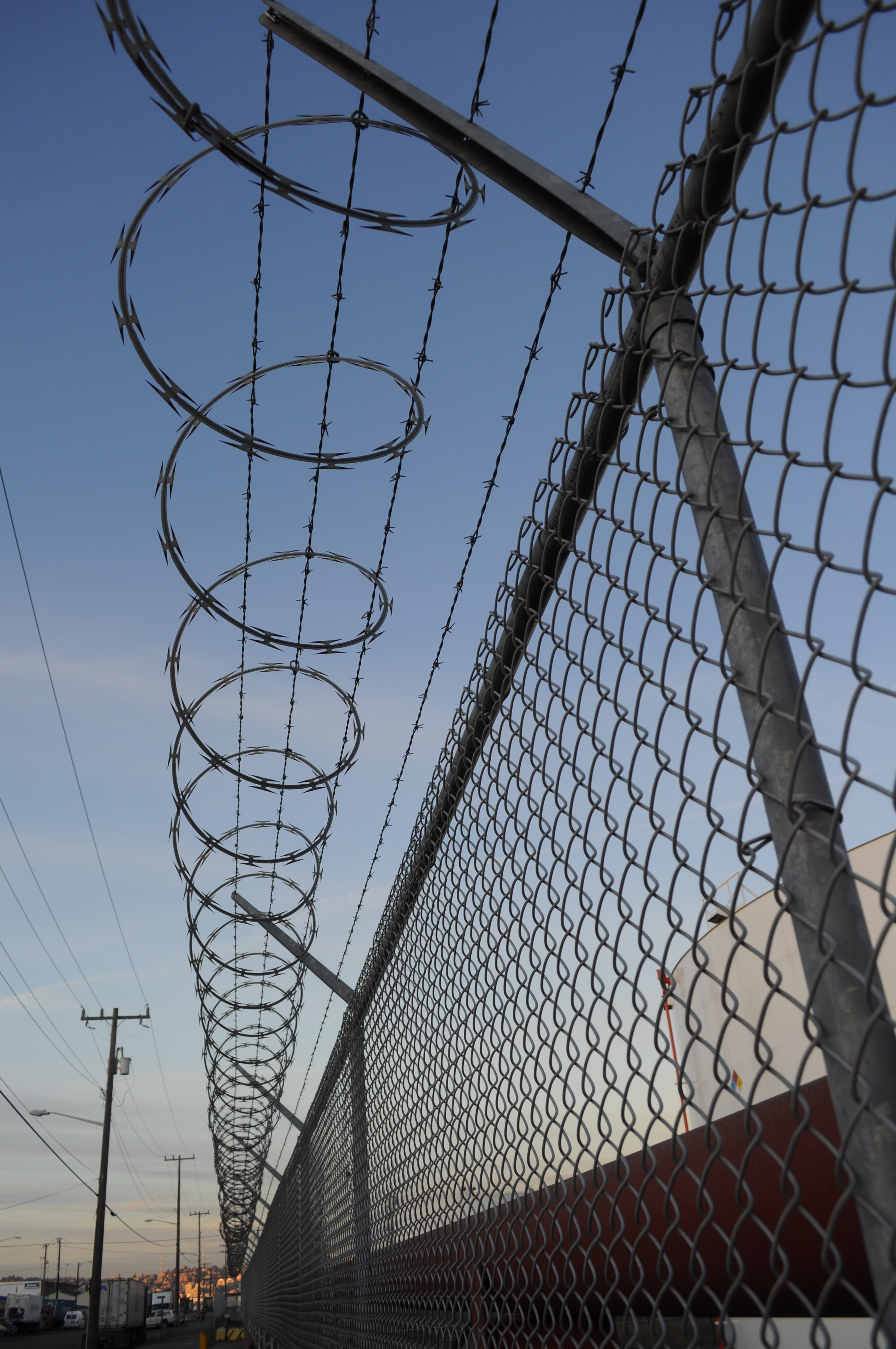 Concertina wire, Harbor Island, Seattle, Washington, USA.